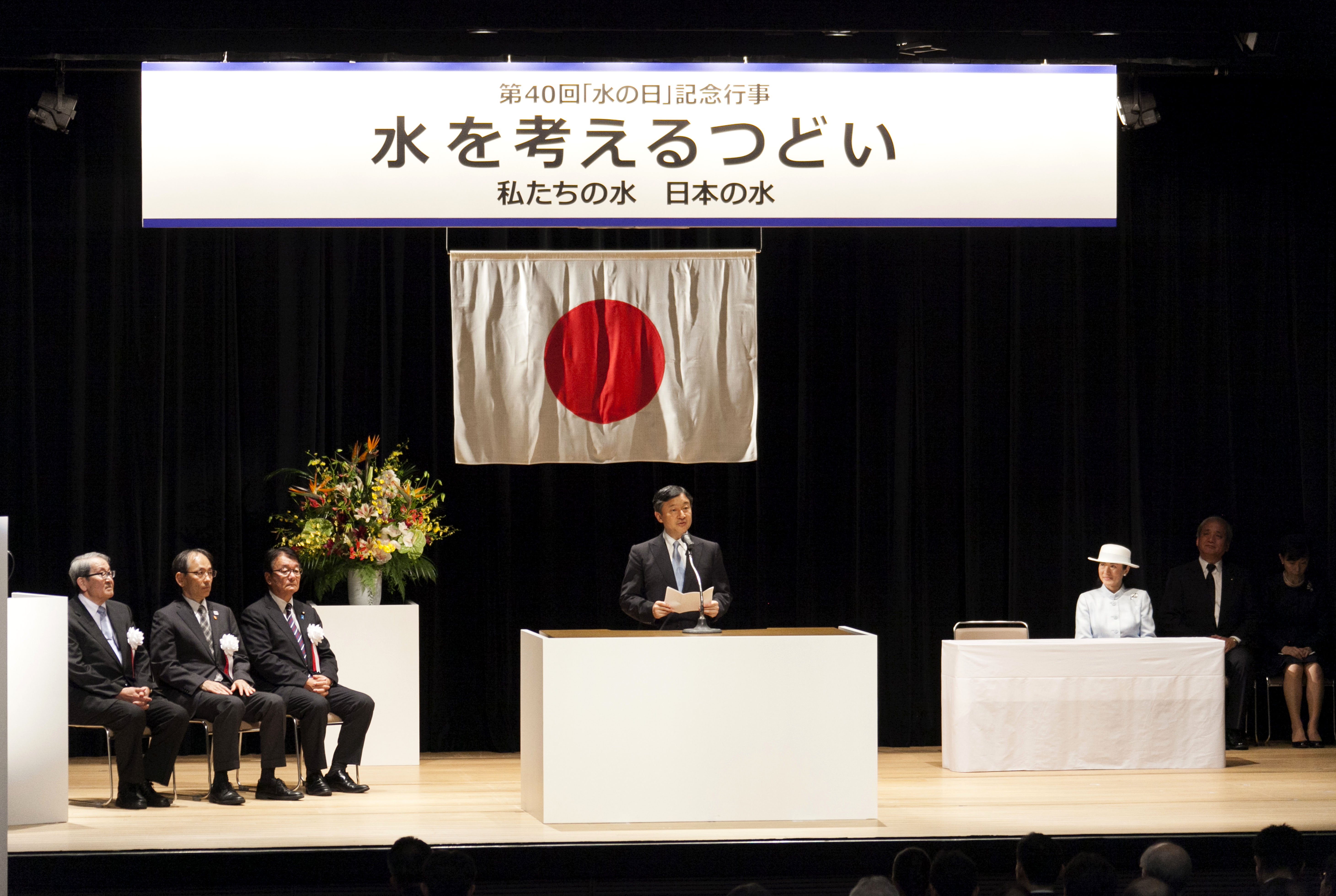 Crown Prince Naruhito and Crown Princess Masako attended the Convention for Thinking about the Water at the Science Museum in Chiyoda Ward, Tōkyō Metropolis on August 1, 2016. Crown Prince Naruhito addressed the convention.